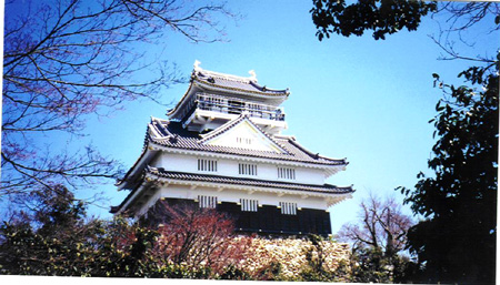 Castle of Gifu, Japan